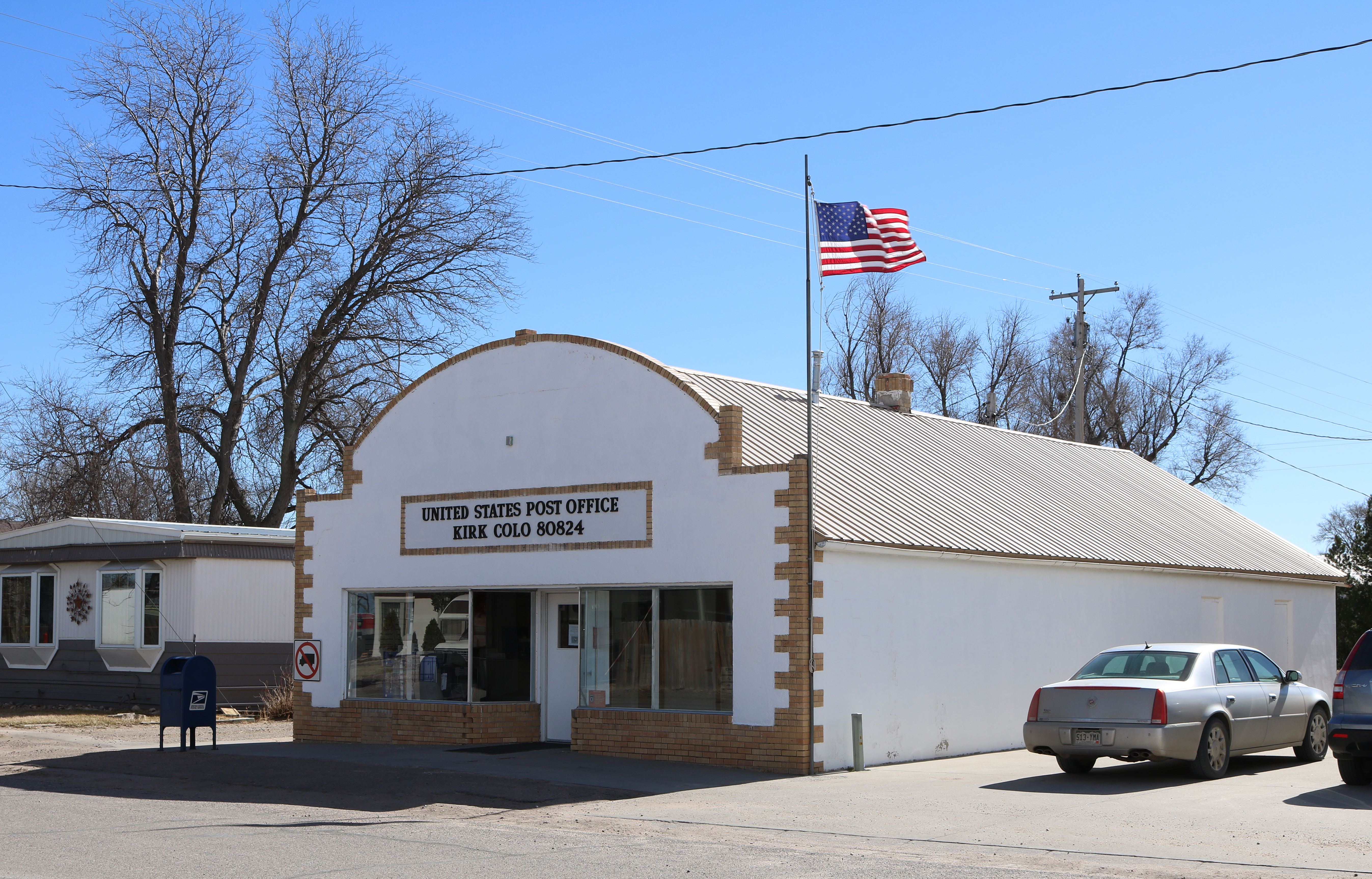 The Kirk, Colorado Post Office, located on County Road 3 in Kirk. Kirk is located in Yuma County, Colorado.